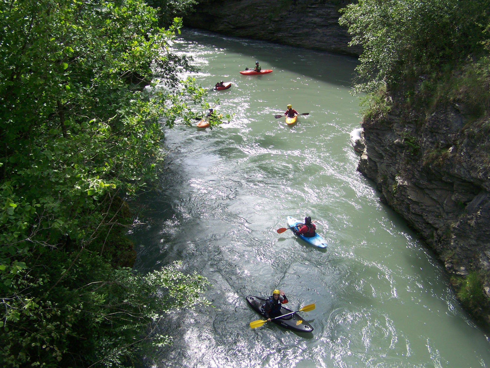 Canoeing in the river Isère near city of Aime in Savoie, France.